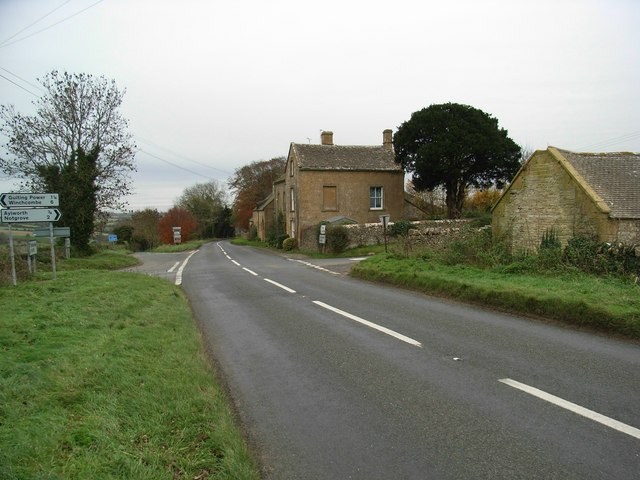 Five ways from Church Farm The main road is the B4068.